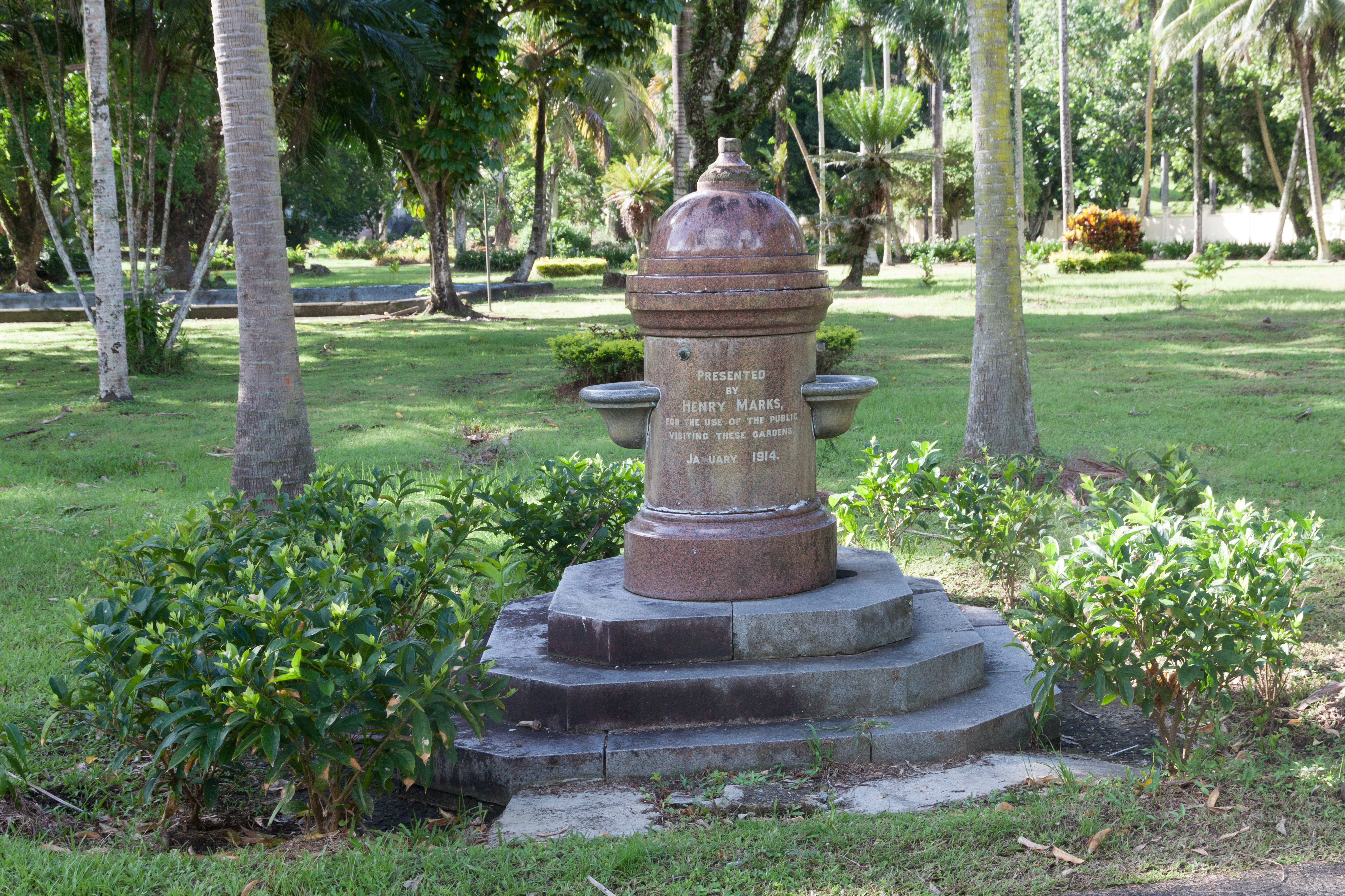 Thurston Gardens (Suva) Memorial